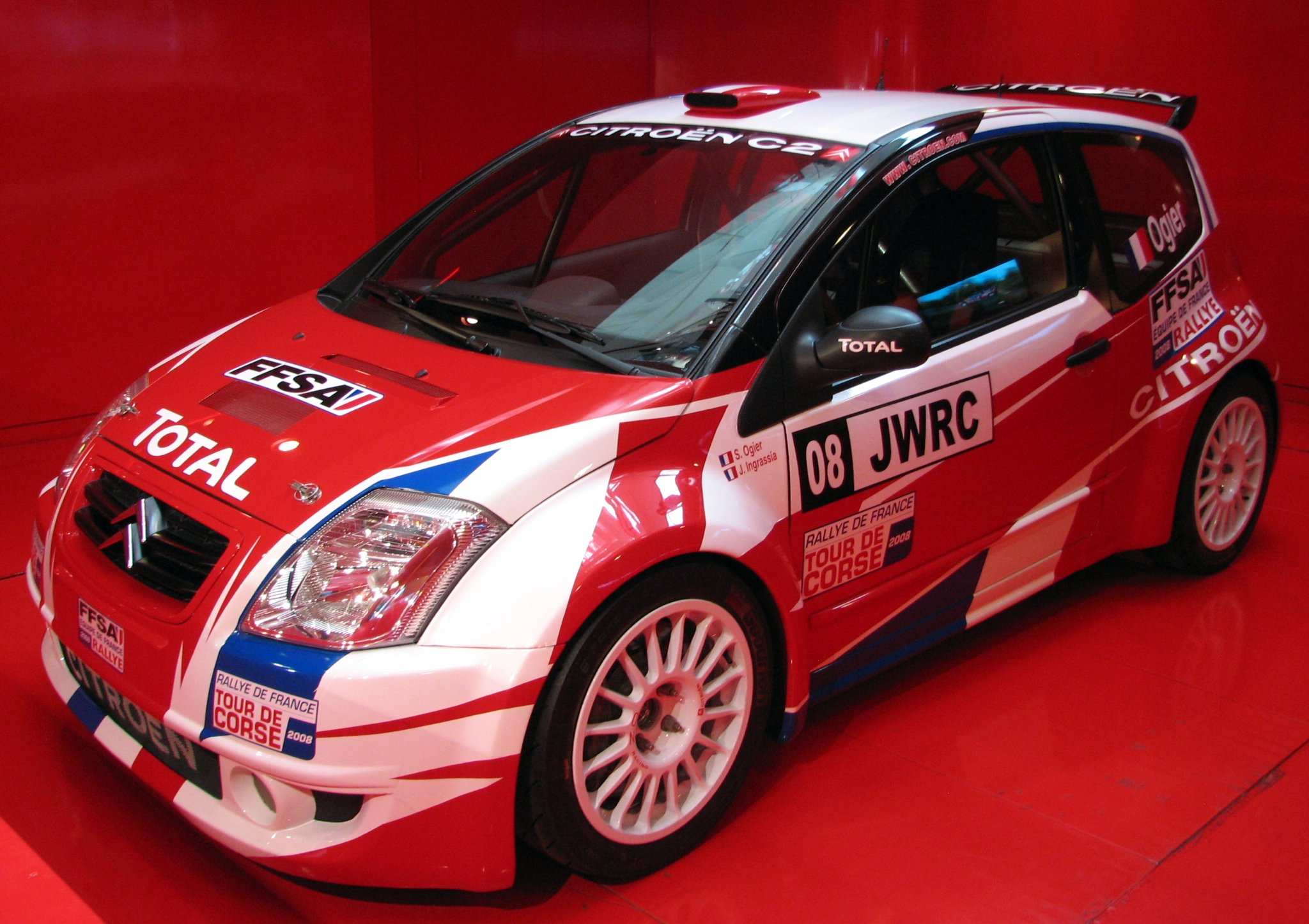 Citroën C2 Rallye Citroën Showroom on the Champs-Elysées